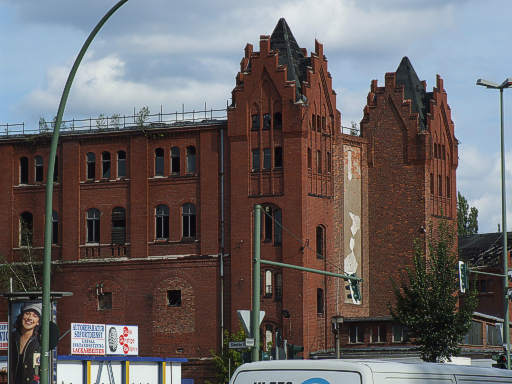 Abandoned factory building of Bärensiegel at Glienicker Weg, Berlin-Adlershof